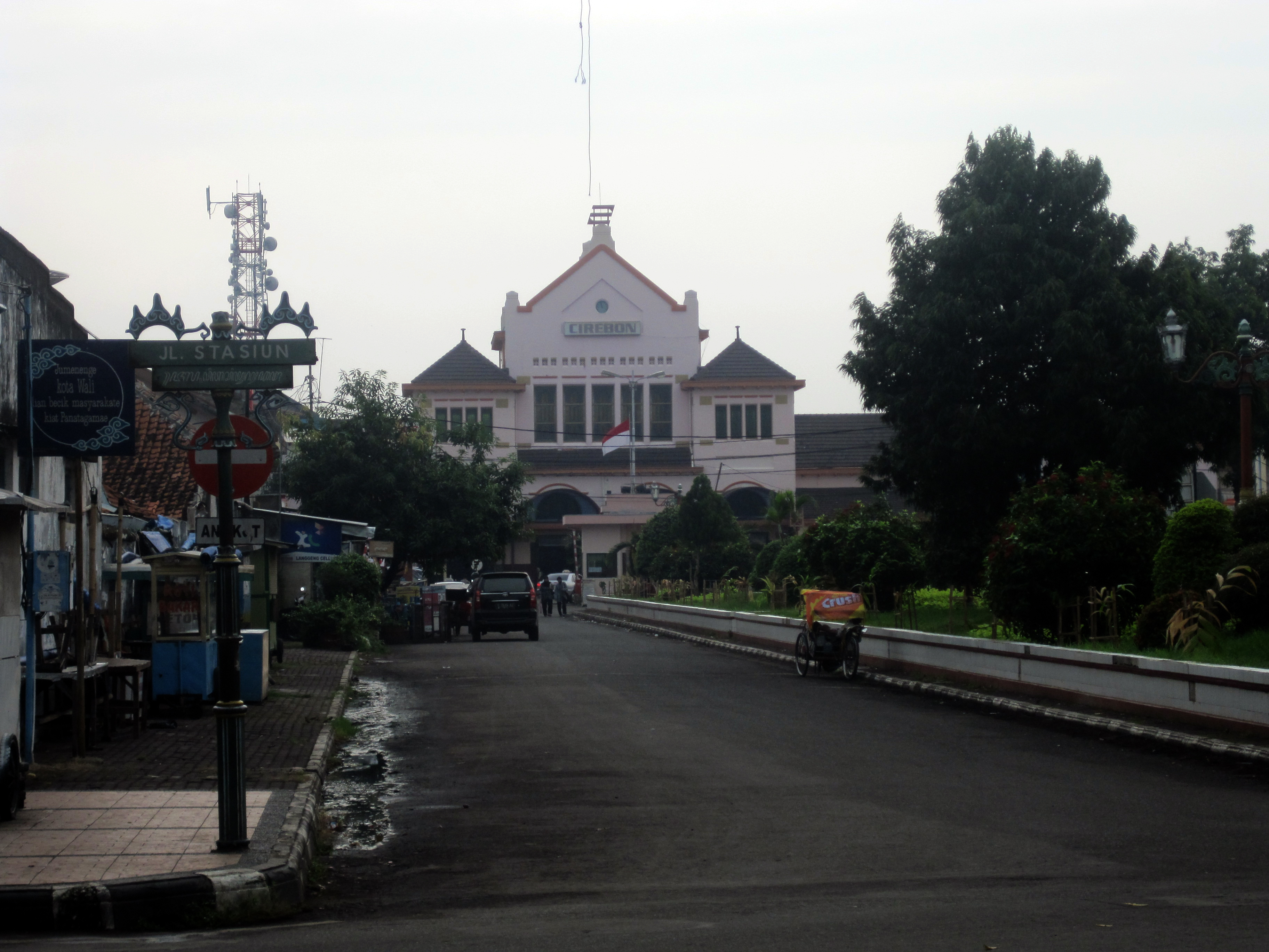 Cirebon Station, West Java, Indonesia